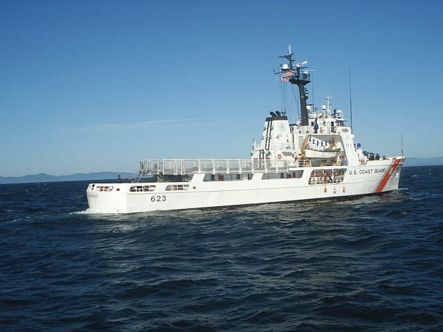 USCGC Steadfast (WMEC-623)